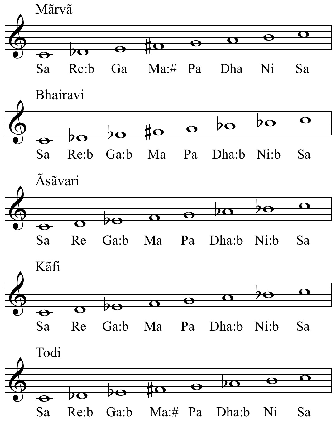 Indian musical scales (Thats), part 2 of 2 Zman 20:31, 12 May 2006 (UTC)